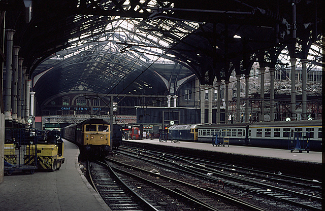 Liverpool Street station Original description: Liverpool Street Station View inside the trainshed just before the station was rebuilt between 1985 and 1992. The tracks in the foreground were remodelled and the platforms shortened to conform with other platform lengths in the station. The loco on the left, a class 47, is waiting with a short parcels train. The other, also a 47, has a silver roof - an embellishment introduced by Stratford depot in 1977 to celebrate Queen Elizabeth II's silver jubilee. Behind, the Great Eastern Hotel can be seen - refurbished between 1997 and 1999. On the right, scaffolding has been erected and preparatory work for the station rebuild is underway.